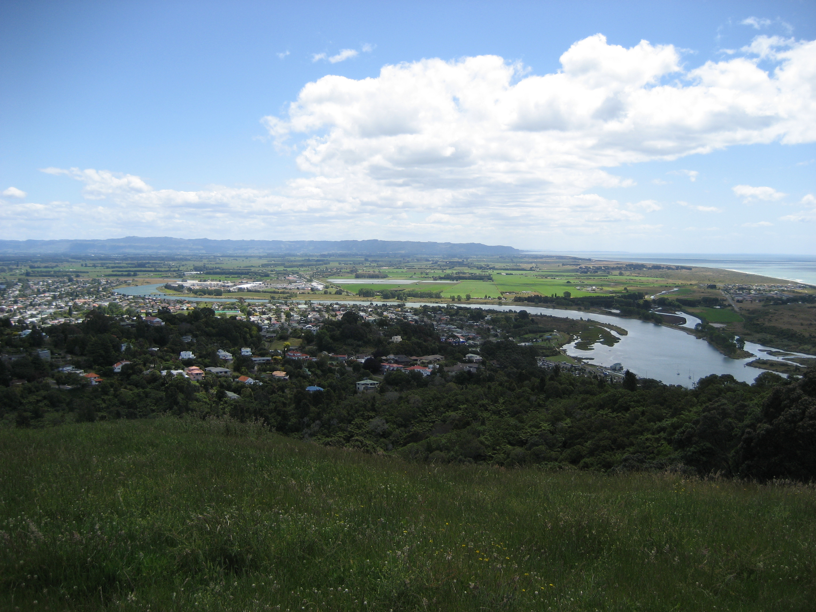 View looking west from Whakatāne over the Eastern Bay of Plenty, New Zealand. Showing Whakatāne River.